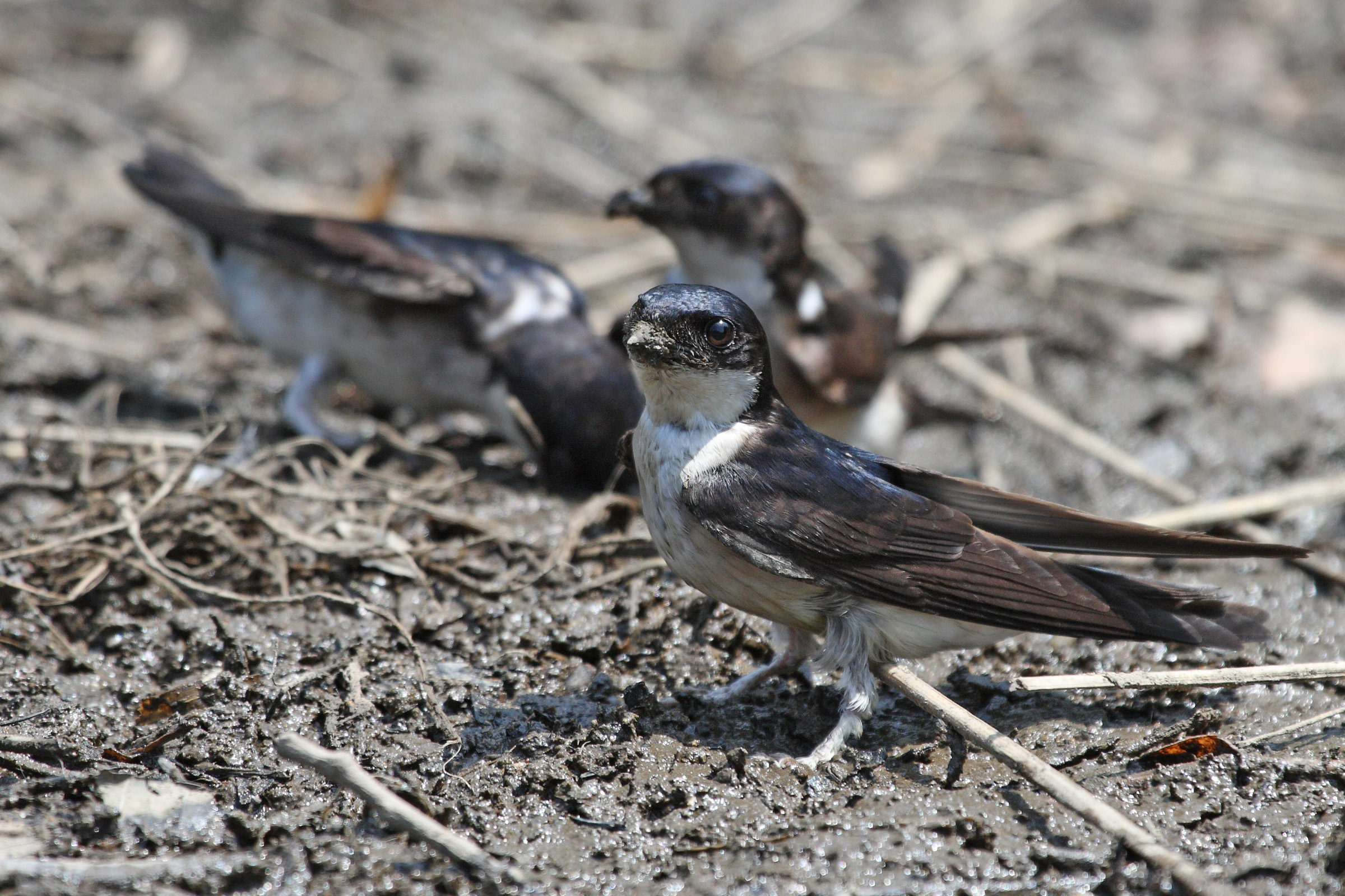 Asian House Martins gathering nest materials in Hakodate, Hokkaidō, Japan.